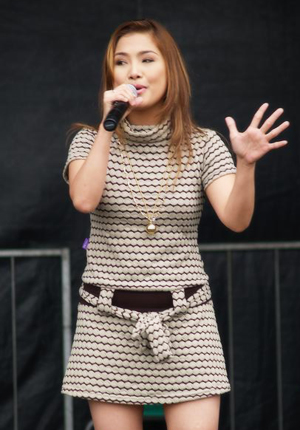 Sheryn Regis in her concert held in Morden Park, UK on June 24, 2007 entitled "Independence Day Fiesta."